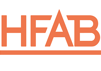 HFAB:s logotyp 2019